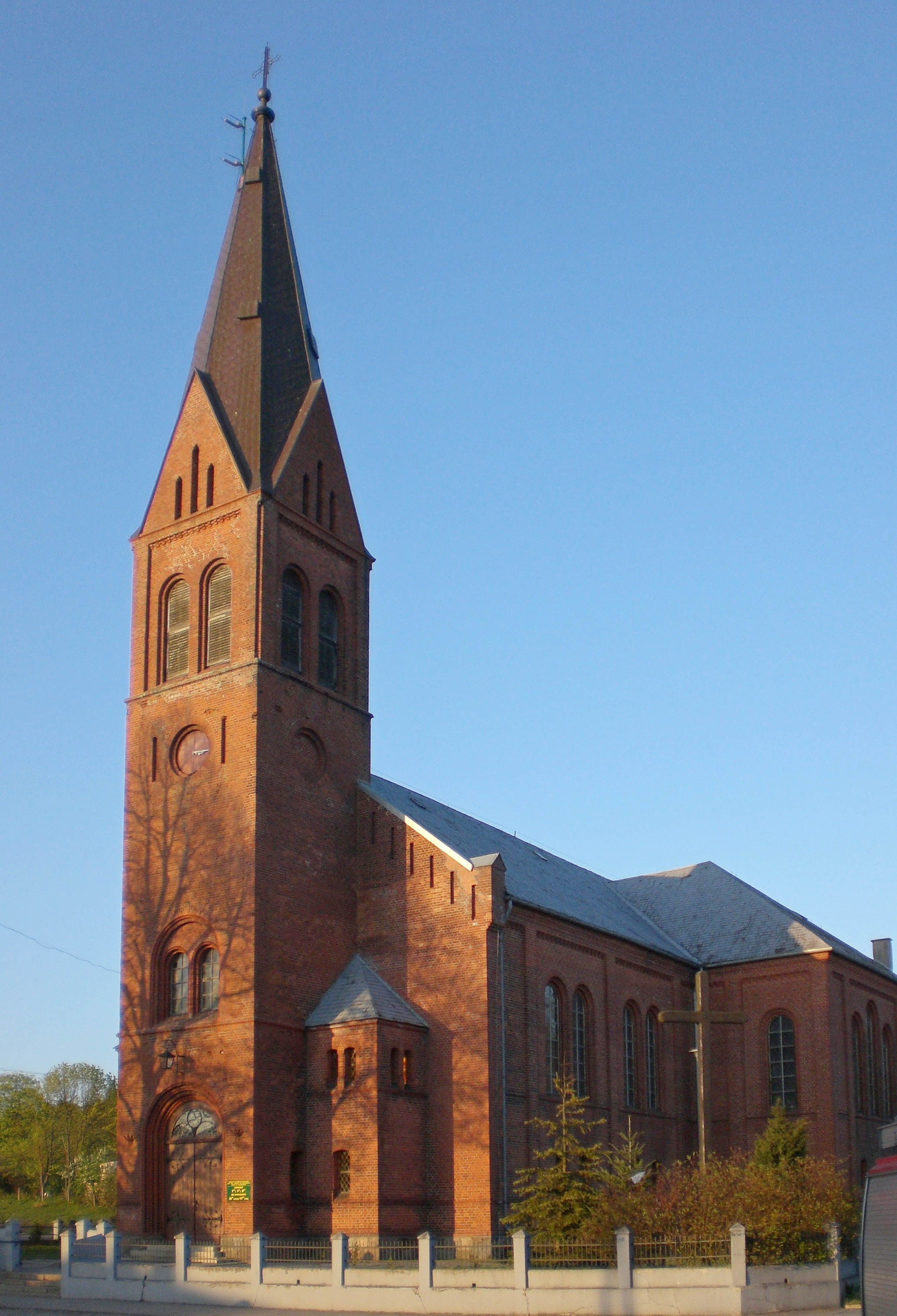 Szymbark - church from 1882